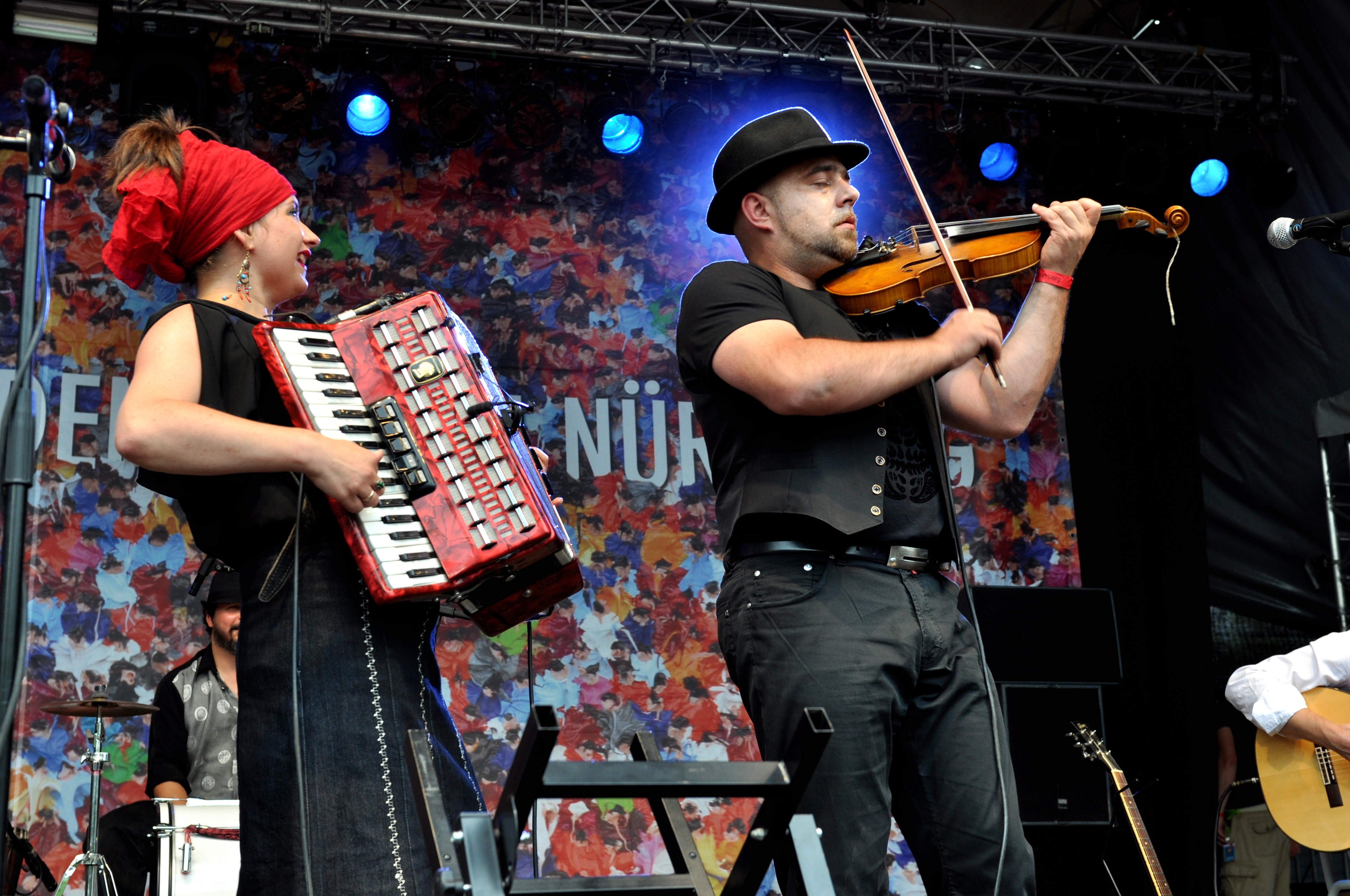 Dikanda (POL), Schuett island stage, 40th music festival 'Bardentreffen' 2015 at Nuremberg, Germany Festivalsommer This photo was created with the support of donations to Wikimedia Deutschland in the context of the CPB project "Festival Summer".